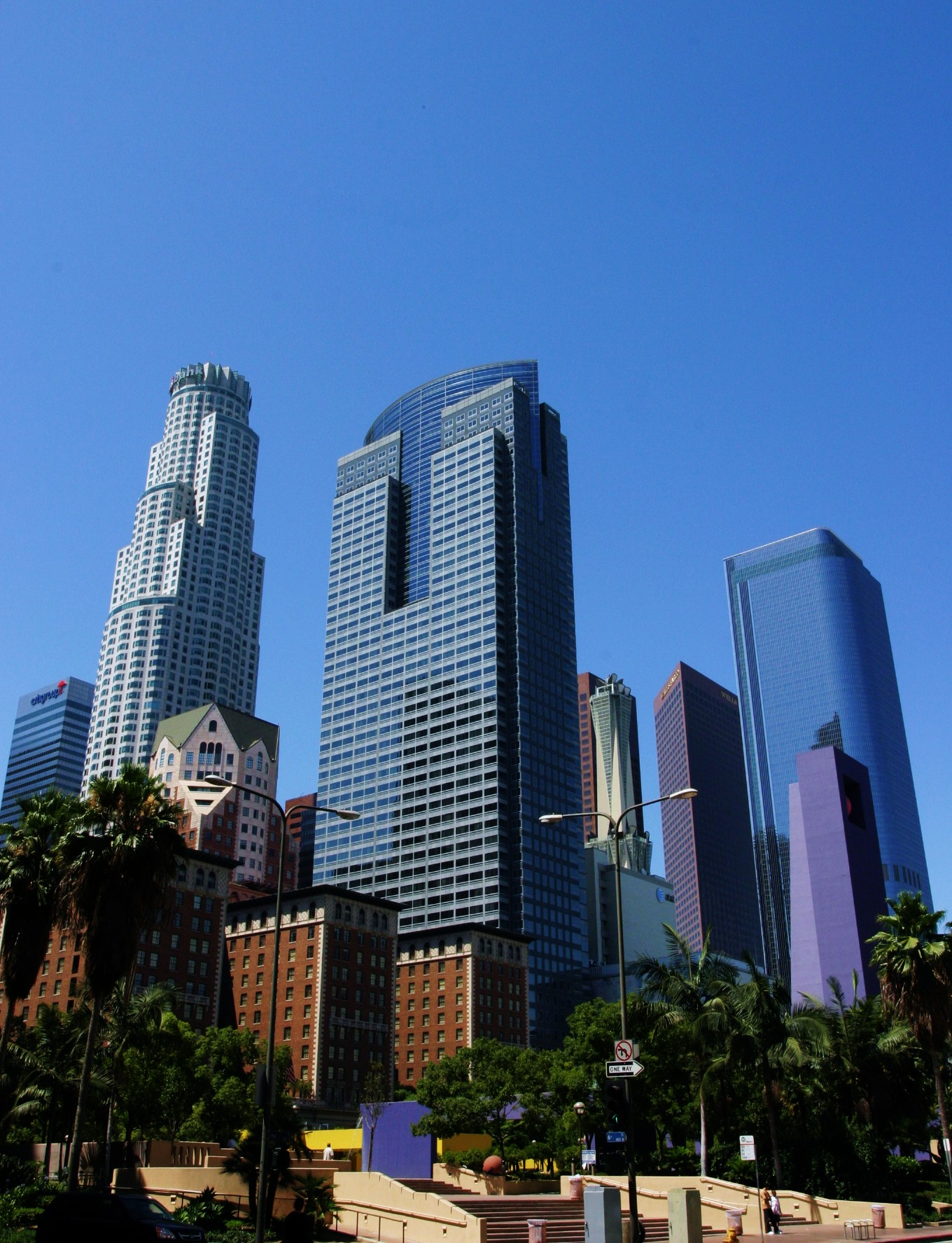 Author: Josh Goodman uploaded to wiki by user:nikkul